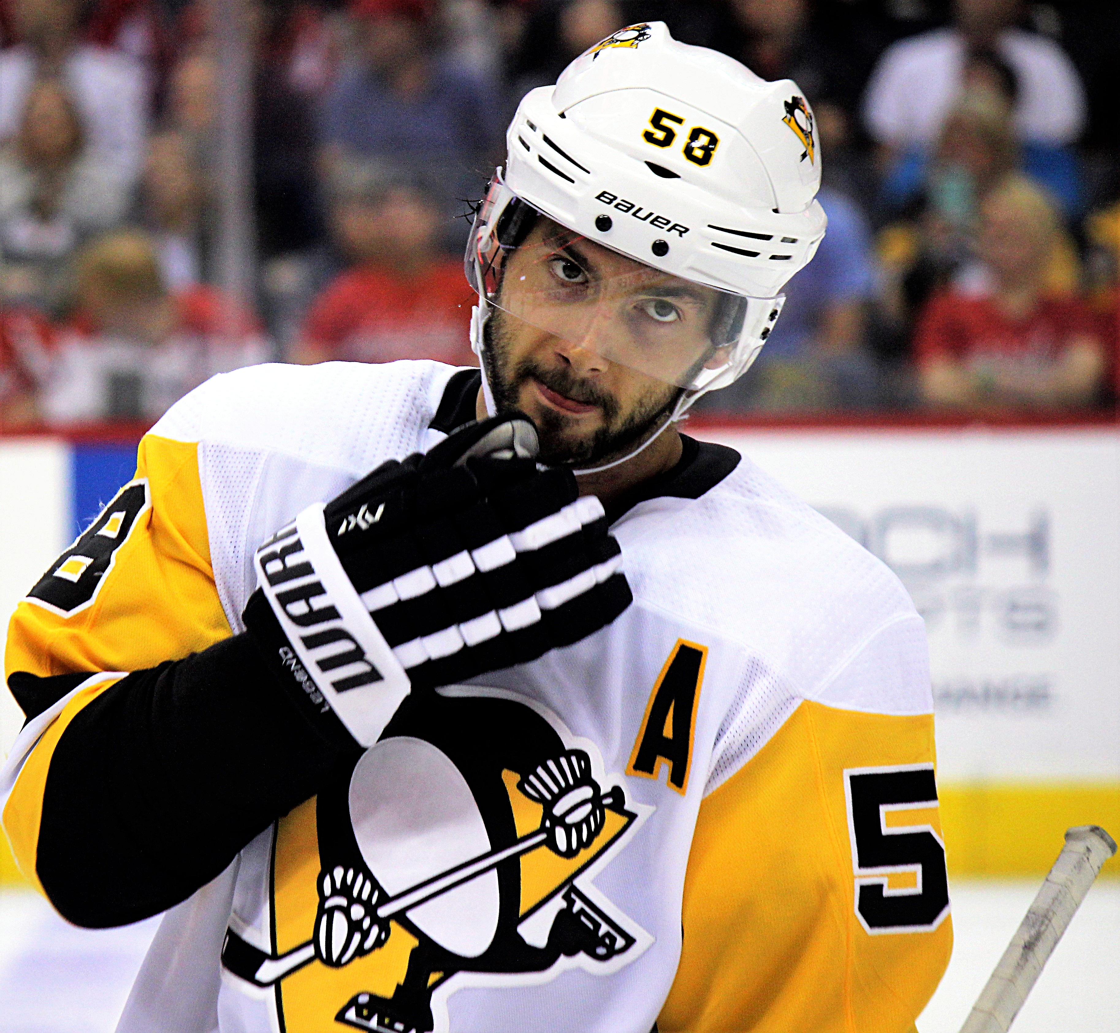 Pittsburgh Penguins defensemen Kris Letang.